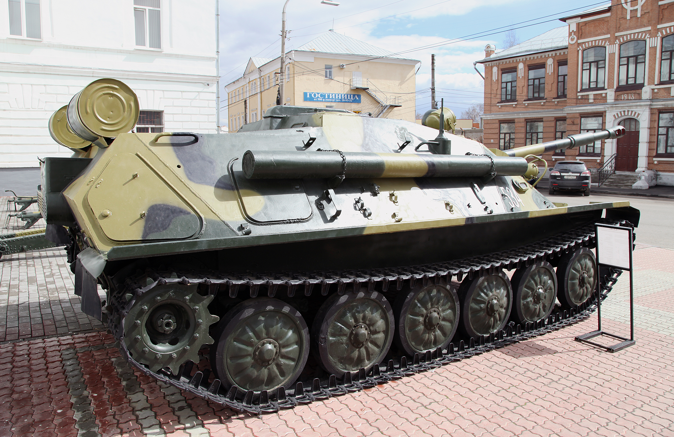 SU-85/ASU-85 self-propelled artillery